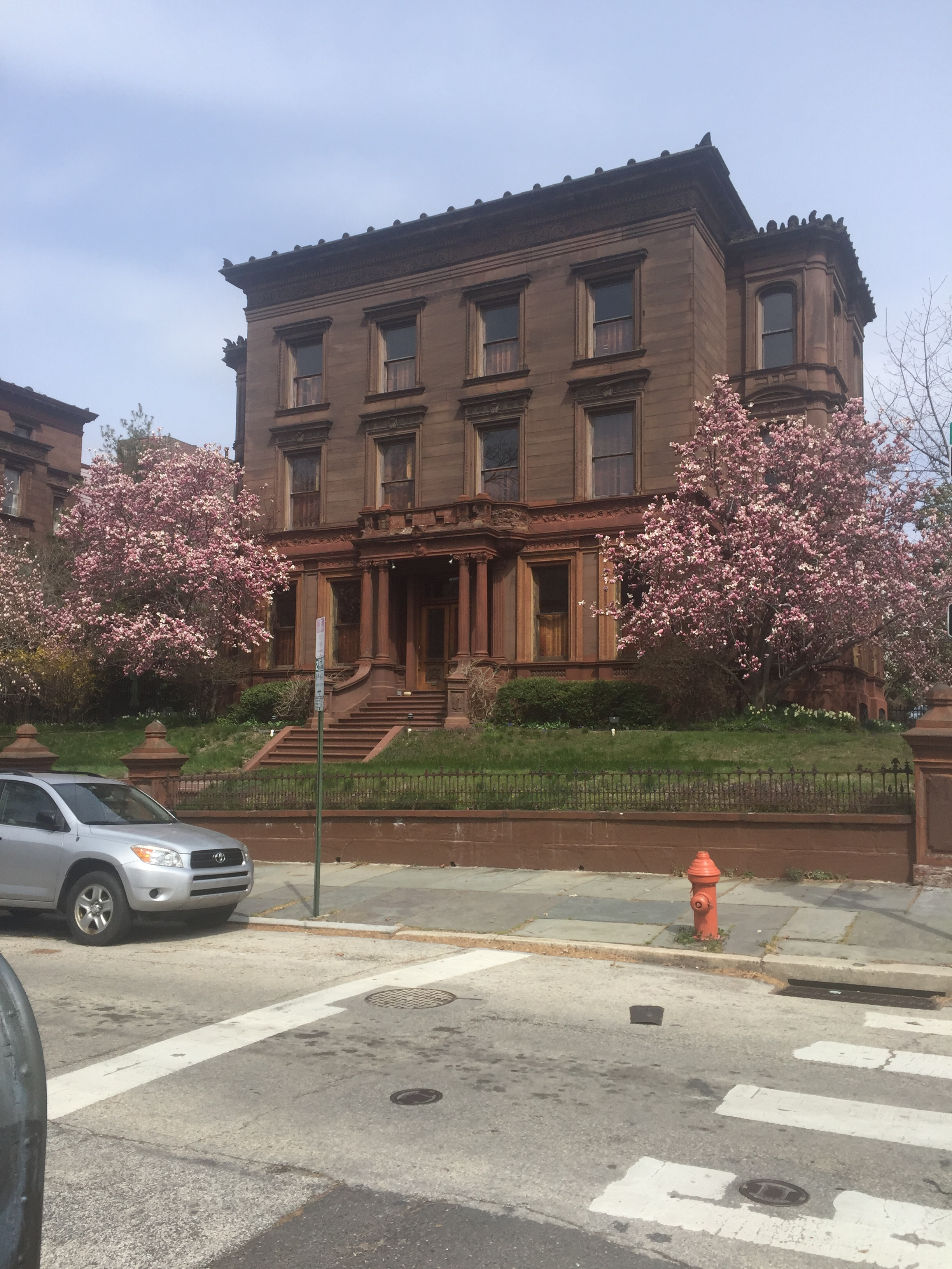 Mansion in Fairmount Neighborhood; taken in spring. Now apartments.